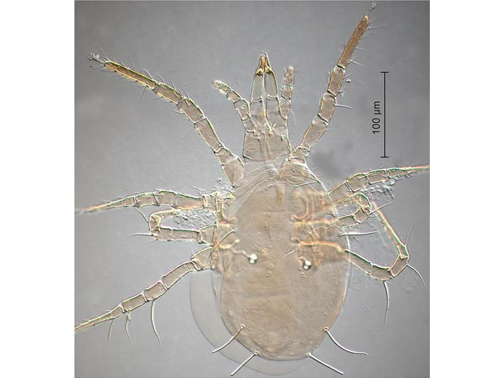 Amblyseius tamatavensis Magnification: 20×